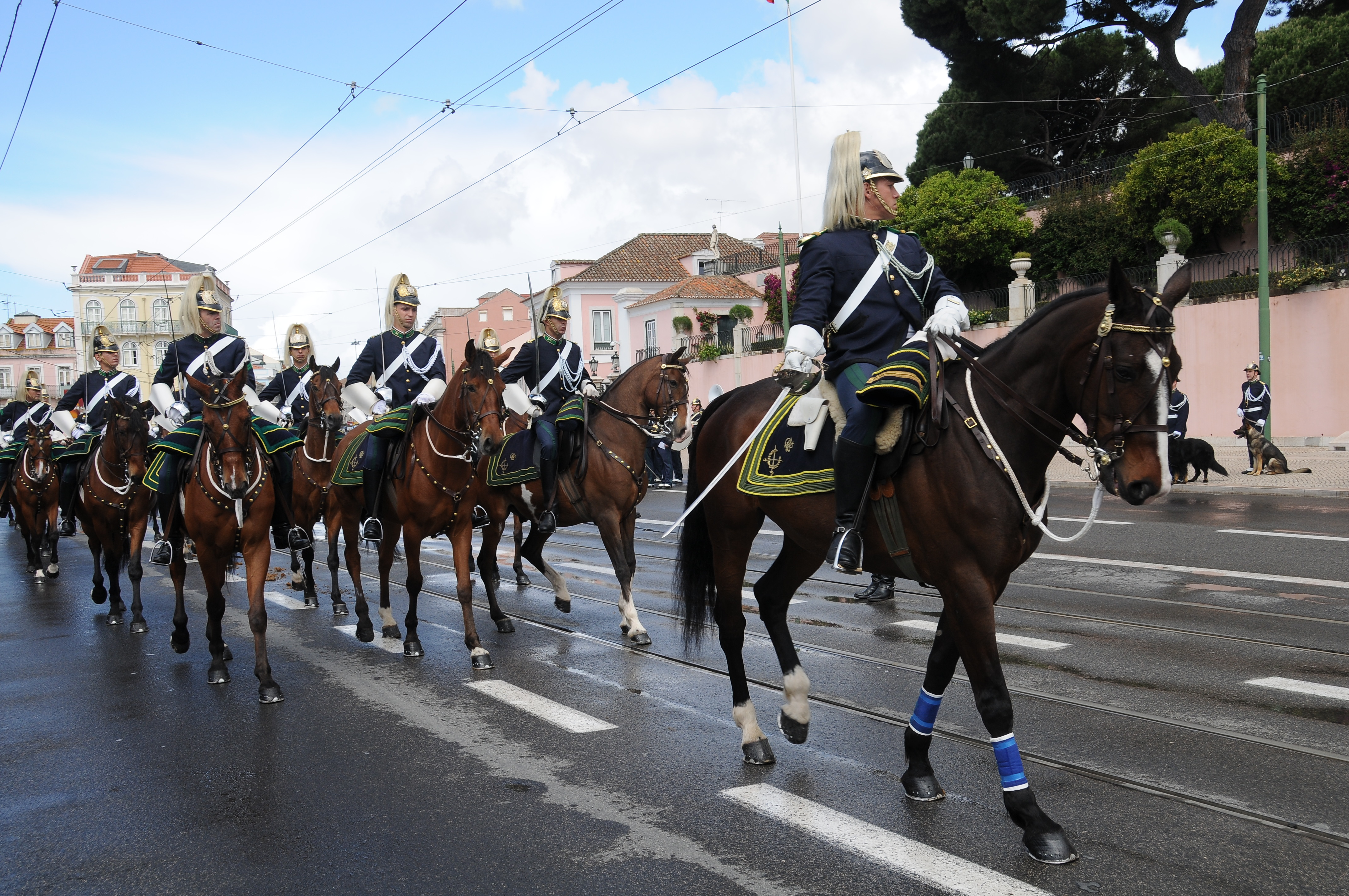 Changing of the Guard in Palácio Nacional de Belém, Lisbon, Portugal